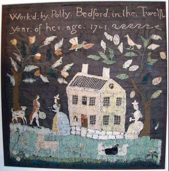 Made by Polly Bedford American, born 1779 United States, Massachusetts, Salem Sampler, 1791 Wool, plain weave; embroidered with silk floss and silk yarns in back, chain, Cretan, individual back, individual running, Roman, satin, stem, and surface satin stitches; laid work, couching, and Roumanian couching 42.9 x 43.7 cm (16 7/8 x 17 1/4 in.) Bequest of Elizabeth R. Vaughan, 1950.1130 Legend: "Work' .the.Twelft / Year.of her.age.1791"